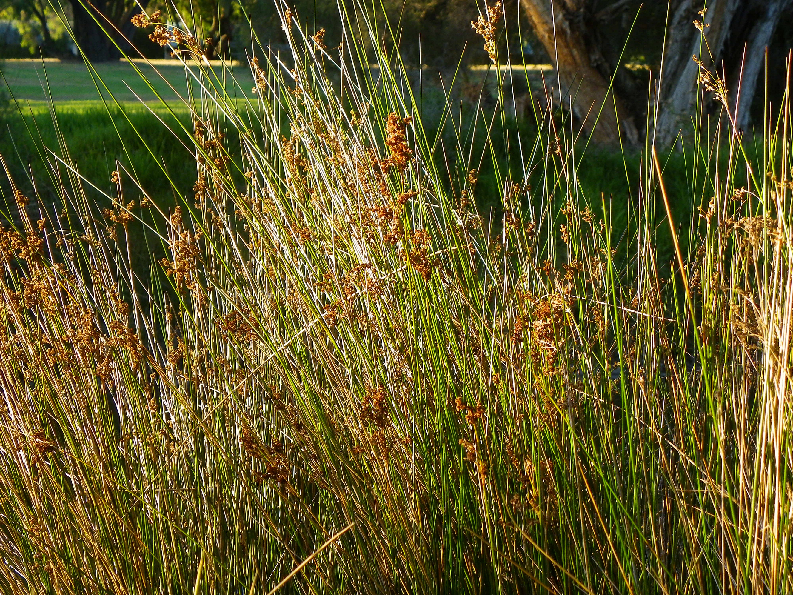 Pale rushes (Juncus pallidus)